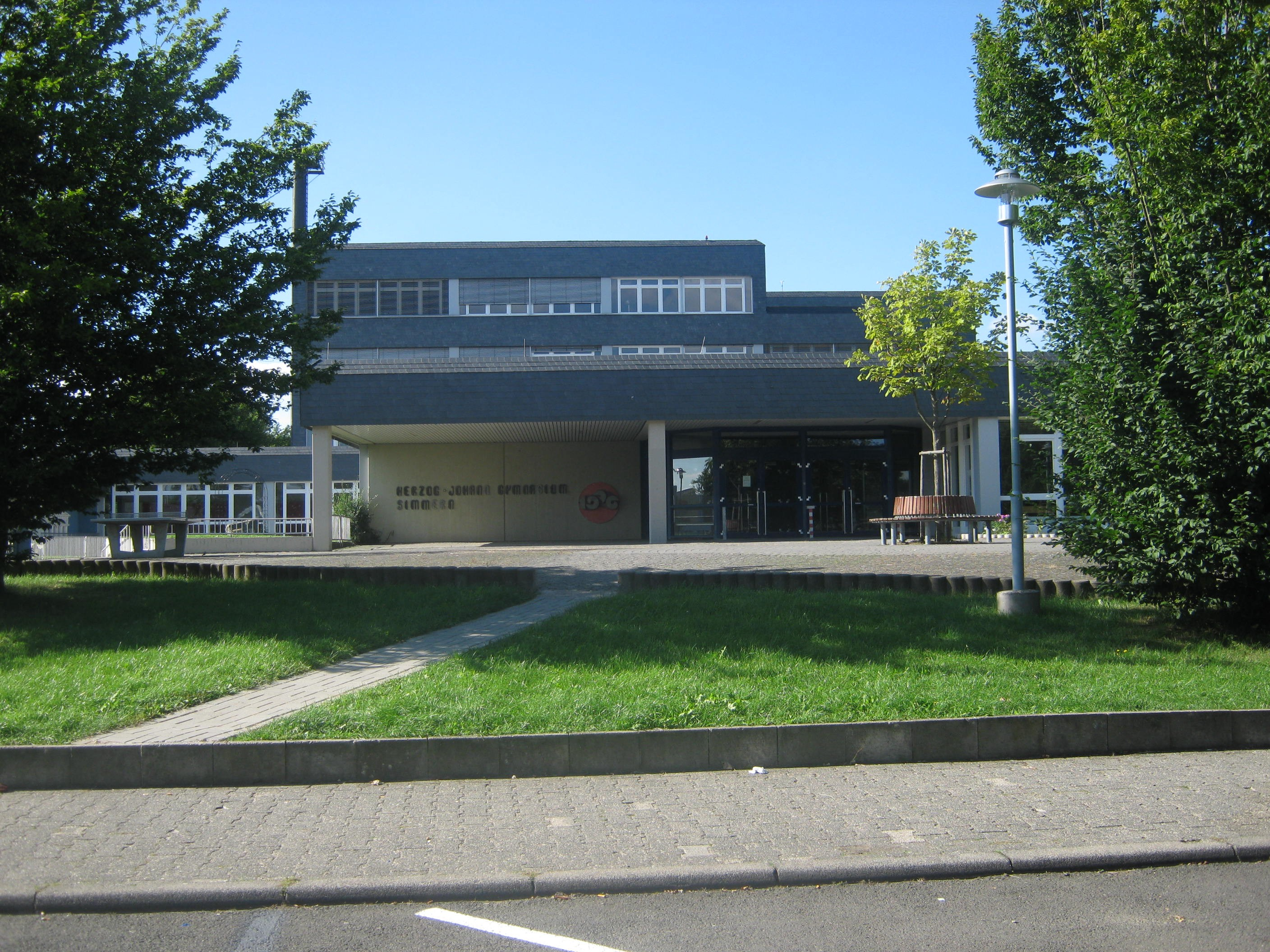 Herzog-Johann-Gymnasium, Simmern, Germany